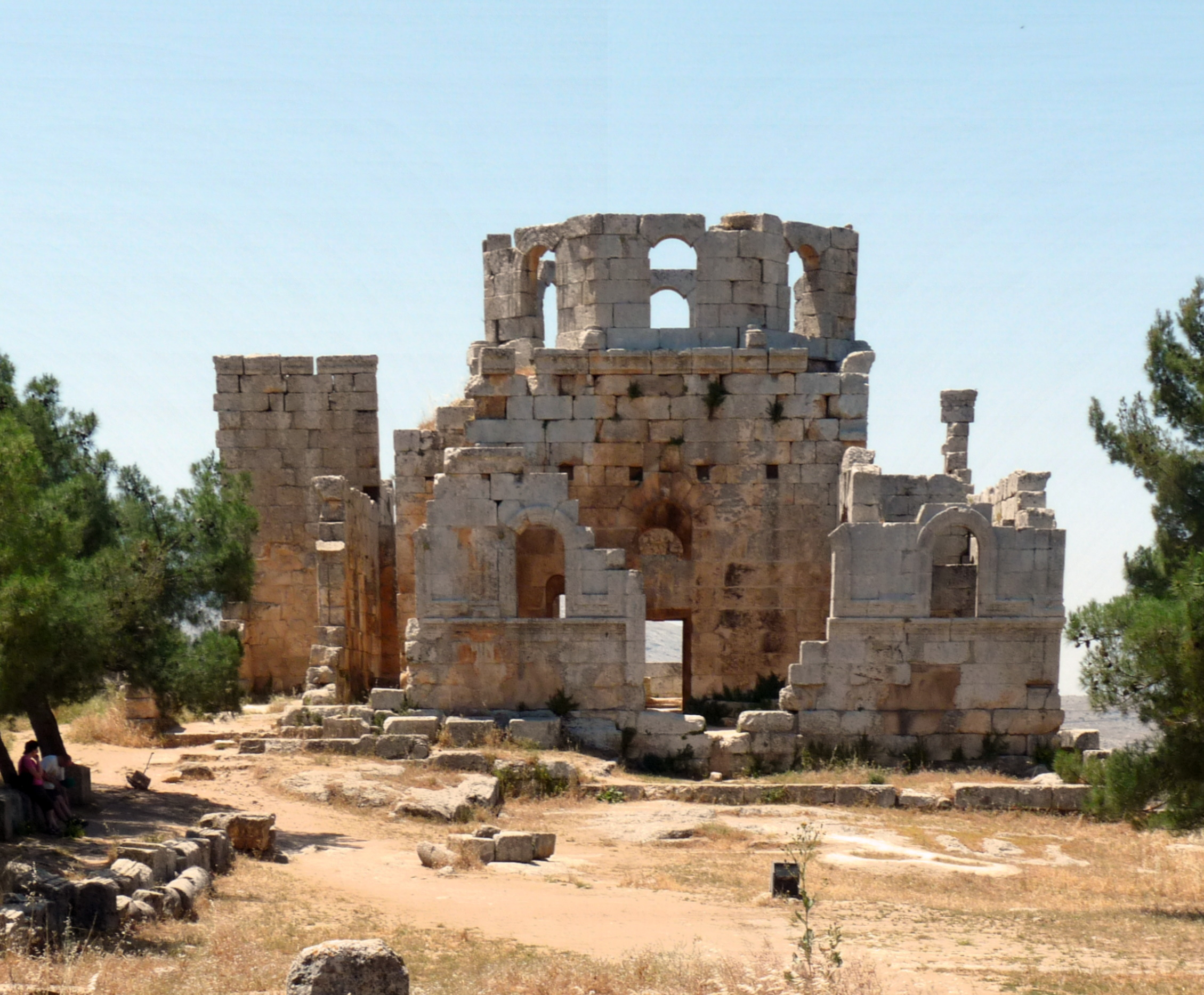 Baptistry of the church ruins of St Simeon Stylites, Syria